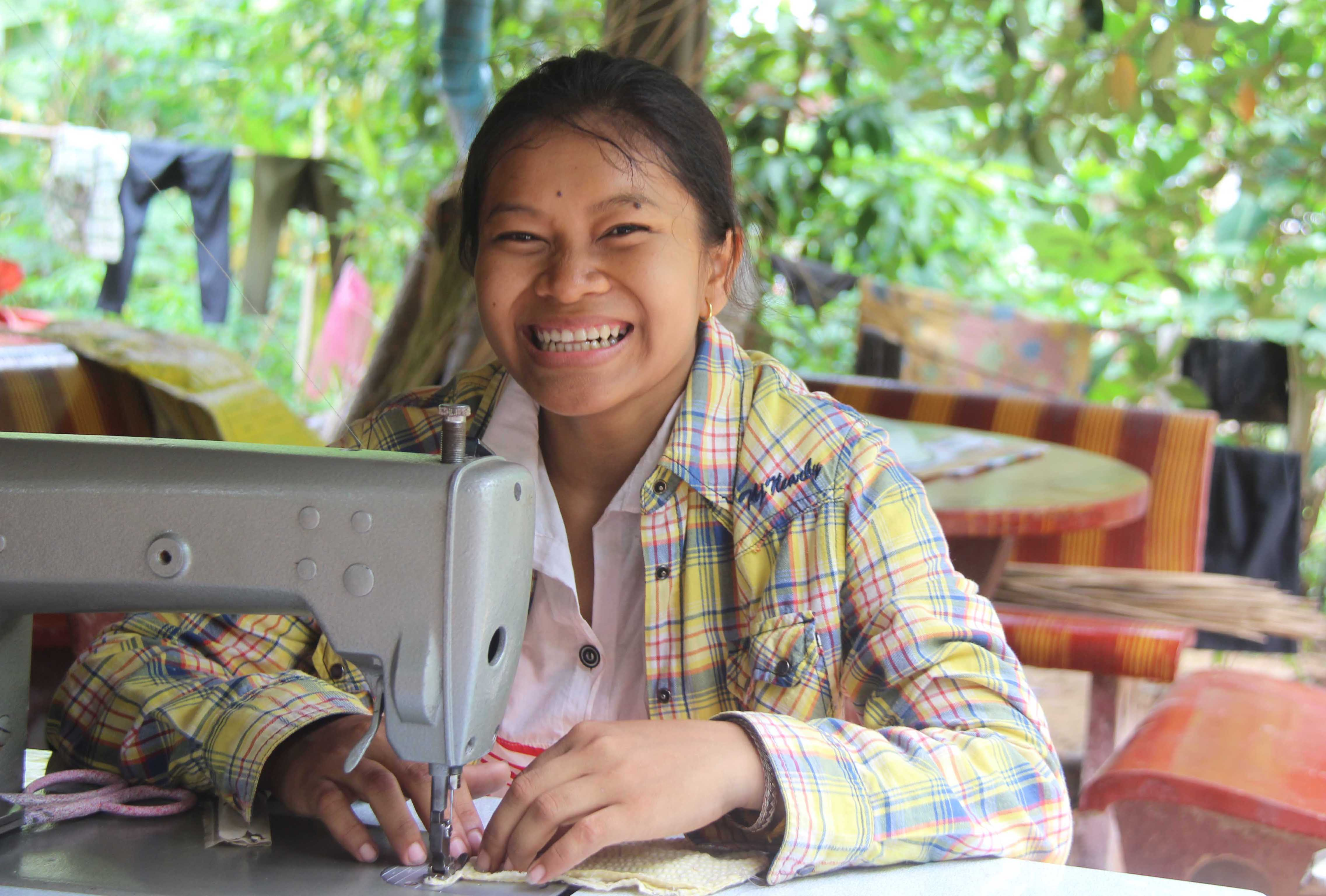 This sewing student proudly shows off her sewing machine. She borrowed the funds to purchase it through the Human and Hope Association sewing machine microfinance program.